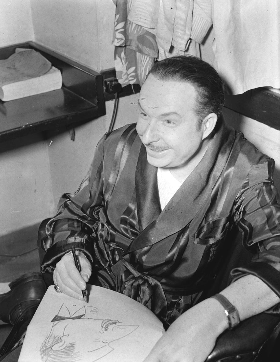 Xavier Cugat. Photography by William P. Gottlieb